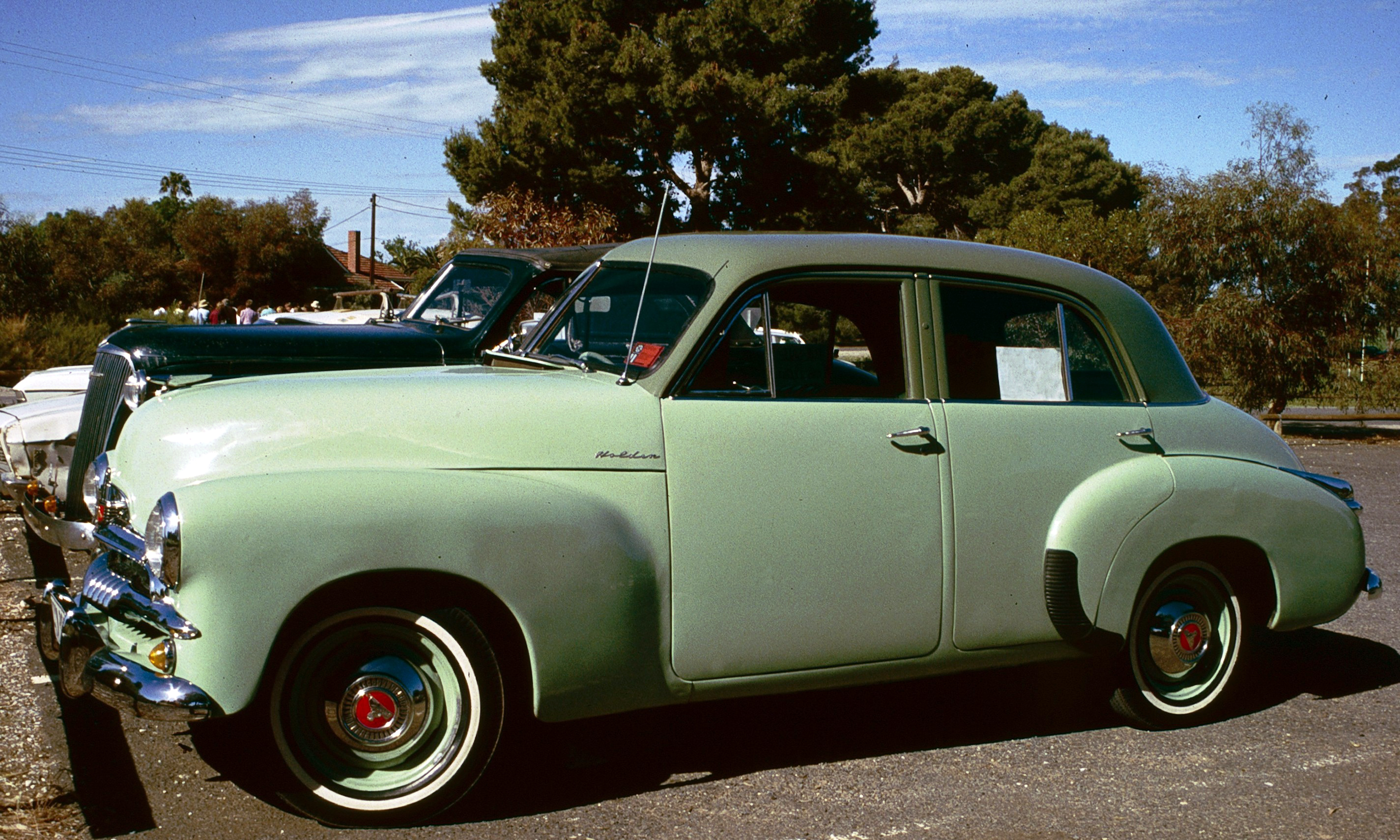 1953–1956 Holden FJ Special sedan. Photographed at a Roseworthy Agricultural College open day just outside Gawler, South Australia, Australia.